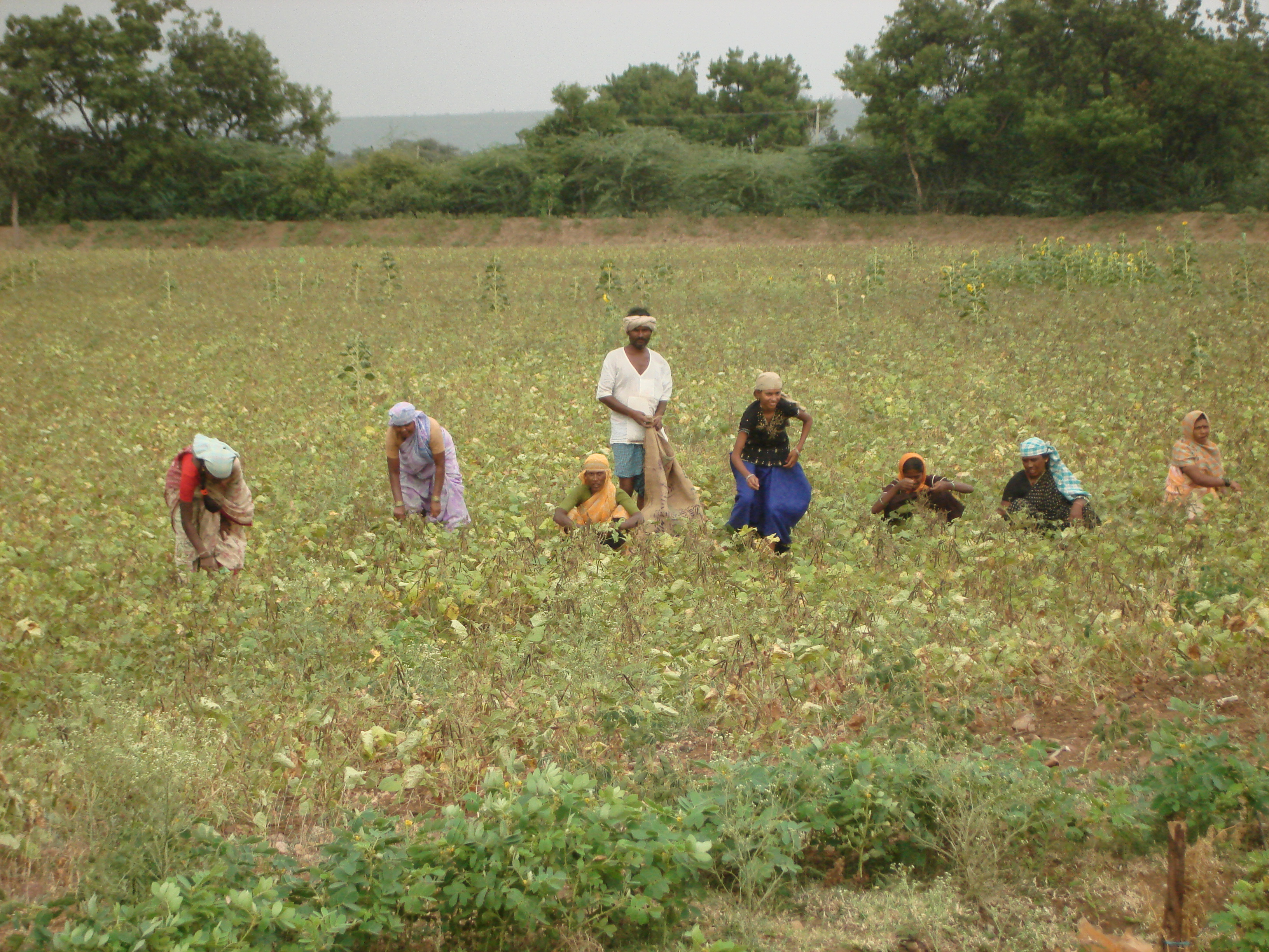 Workers tending crop fields off of the highway from Dharwad to Hampi.